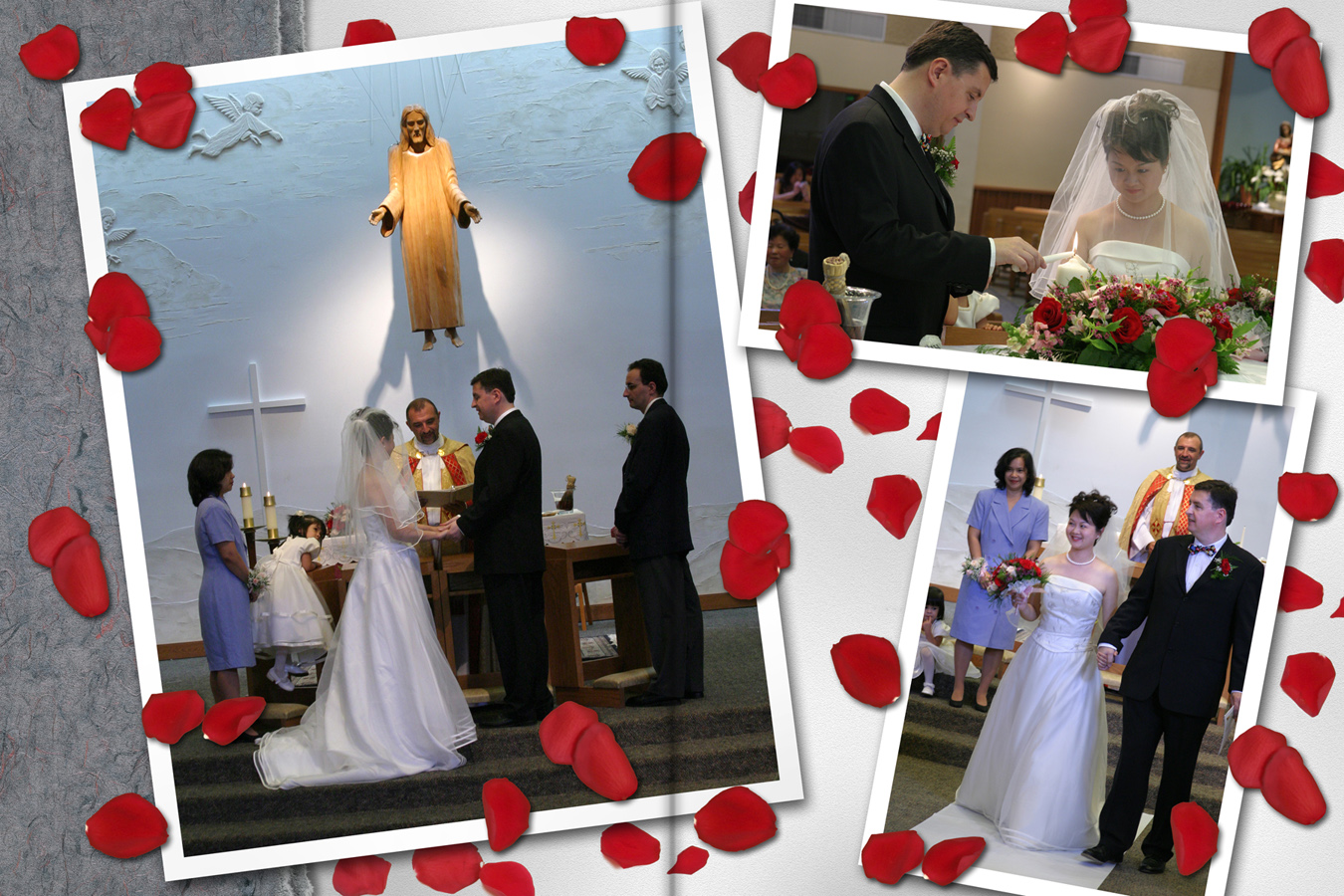 Description:Sample two page wedding album spreadPhotographer:David BallDate:July 2004